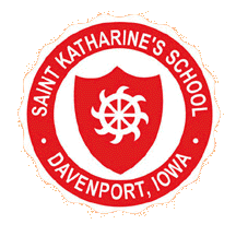 St. Katharine's St. Mark's 1927 Emblem